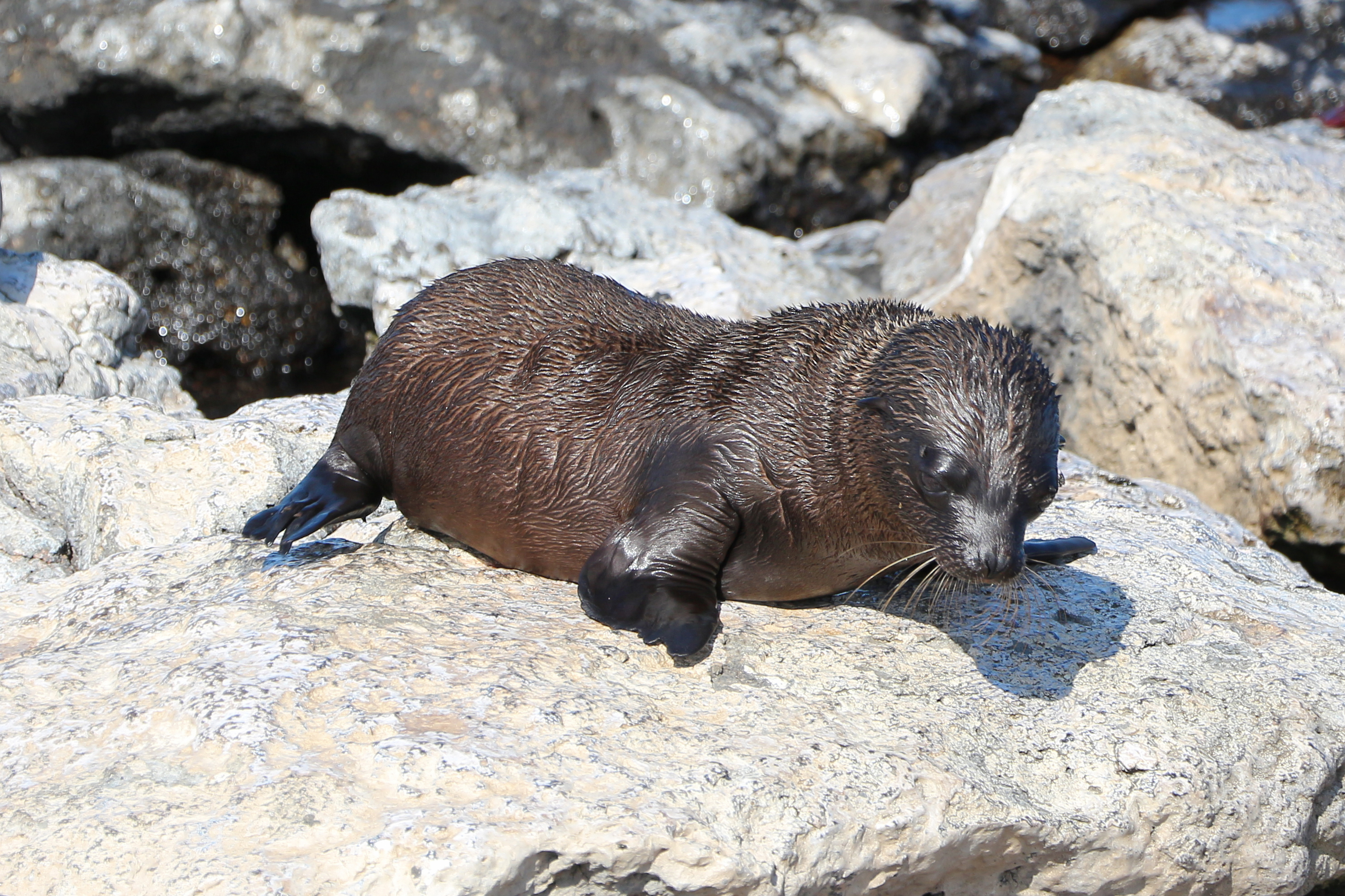 Galápagos fur seal (Arctocephalus galapagoensis), Plaza Sur Island, Galápagos National Park, Ecuador